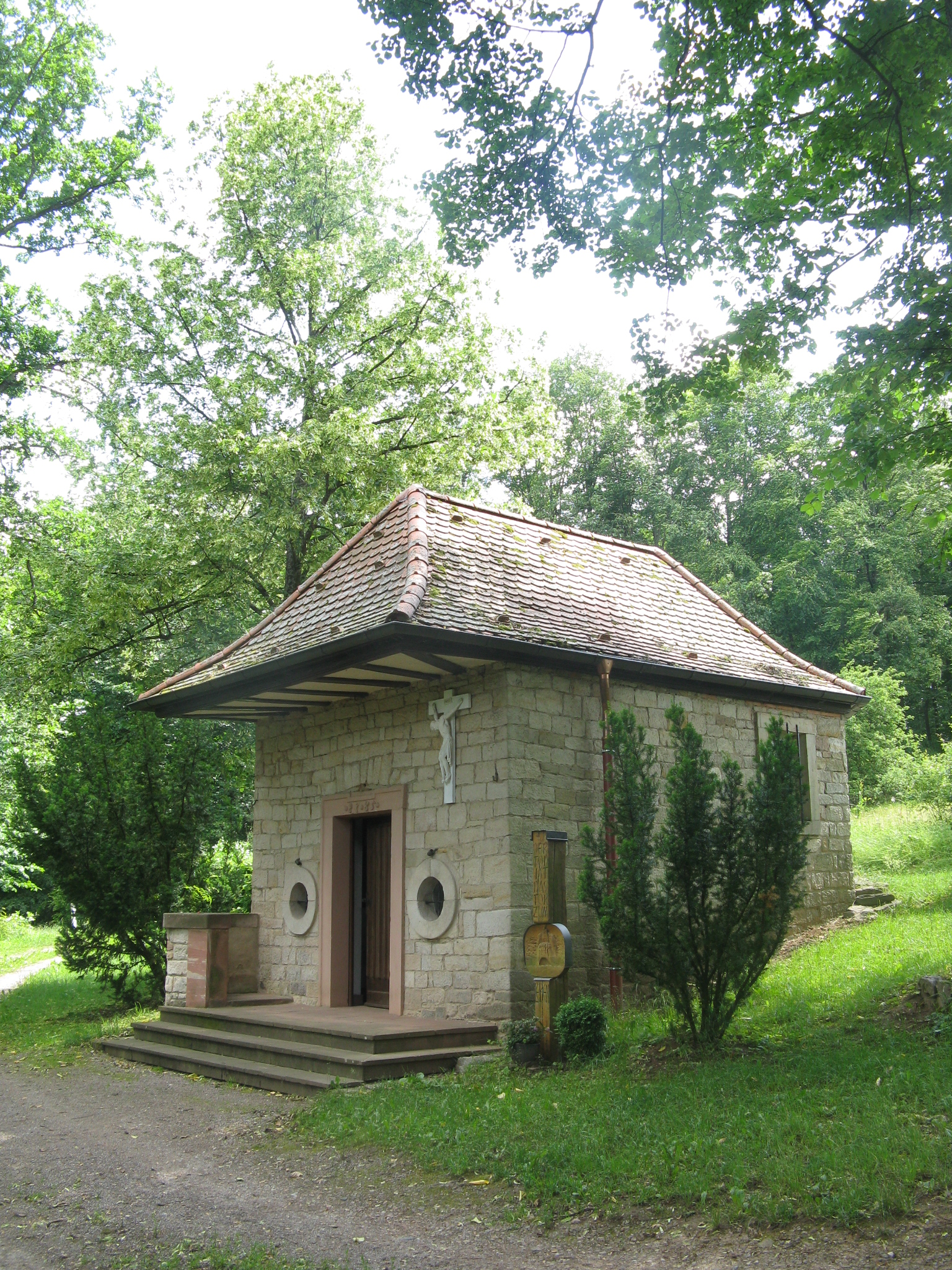 Rottenberg chapel, Spessart/Germany